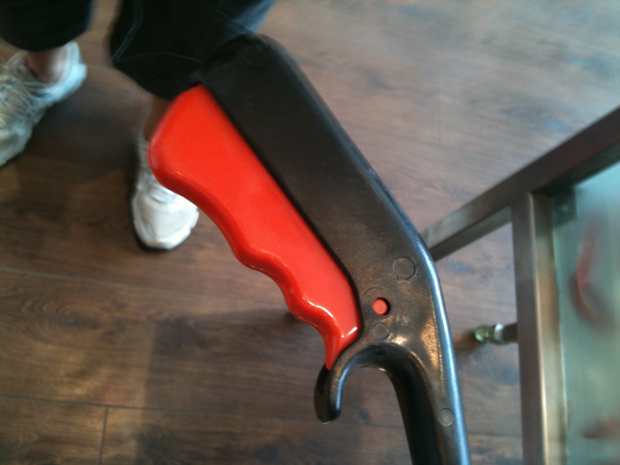 Grabber reacher's handle. Israel